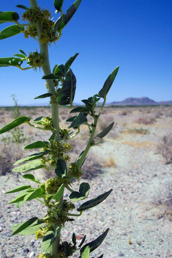 Oxystylis lutea Courtesy of USDI BLM. United States, NV, Clark Co.. August 2003.